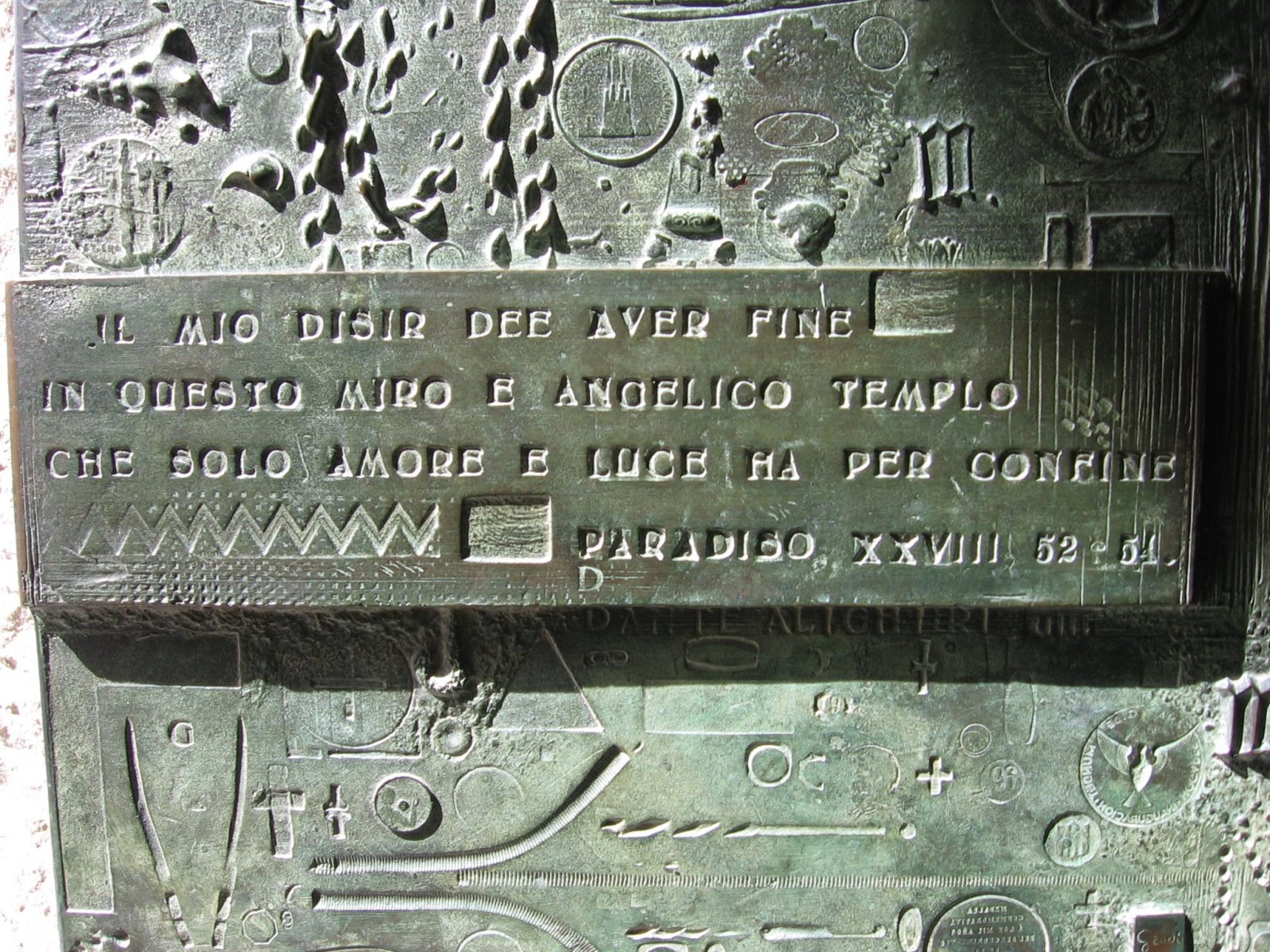 Door of the Crowning with Thorns at the Passion Facade of the Sagrada Família. Inscription with a fragment of the Divine Comedy